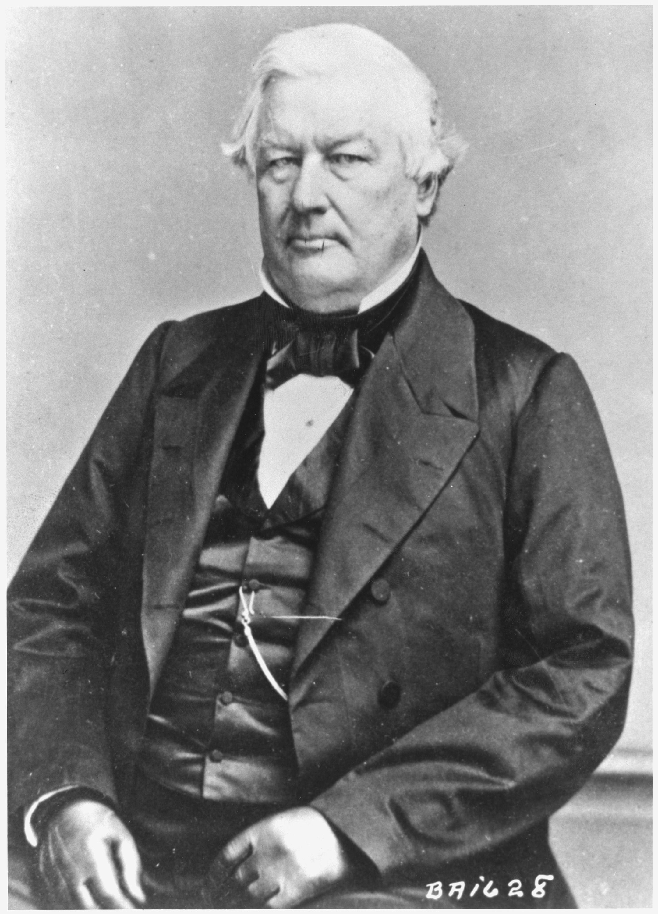 General notes: Use Presidents List Number 8 when ordering a reproduction or requesting information about this image.